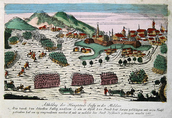 Siege and capture of Jassy in 1788 by the Russian army (coloured engraving)